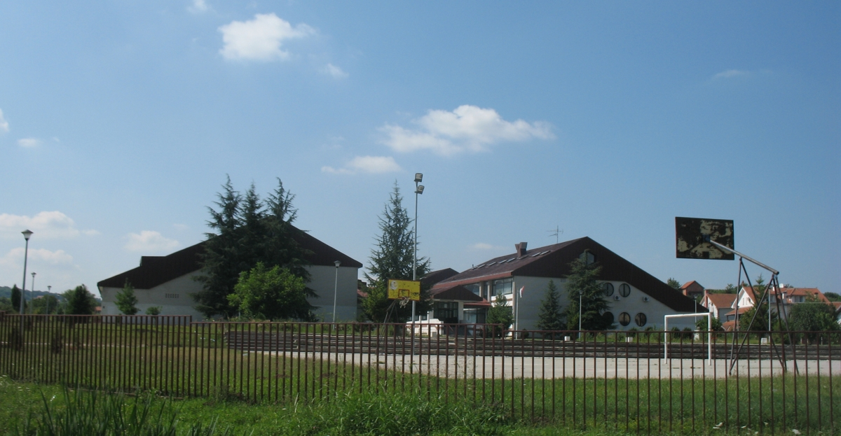 School in Vinča near Belgrade, Serbia.